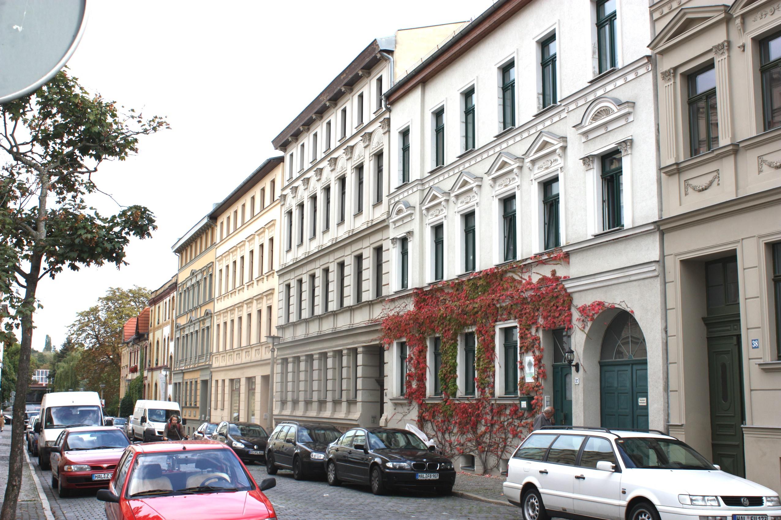 Halle (Saale), the Carl-Robert-Straße